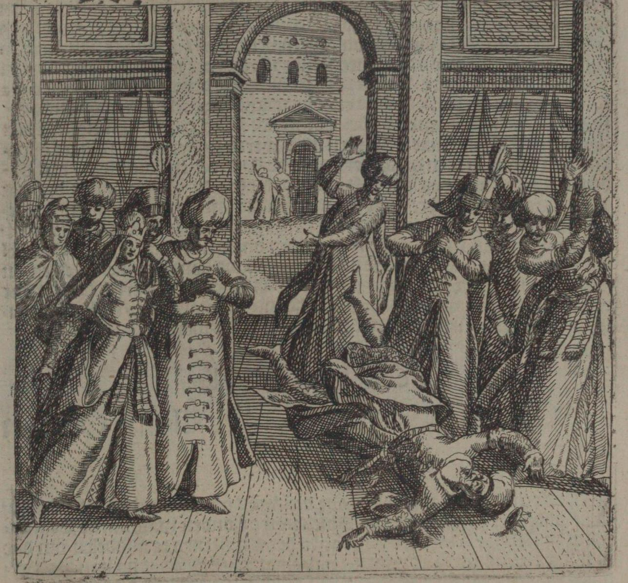 Picture of Mohammed having a seizure, due to his supposed epilepsy